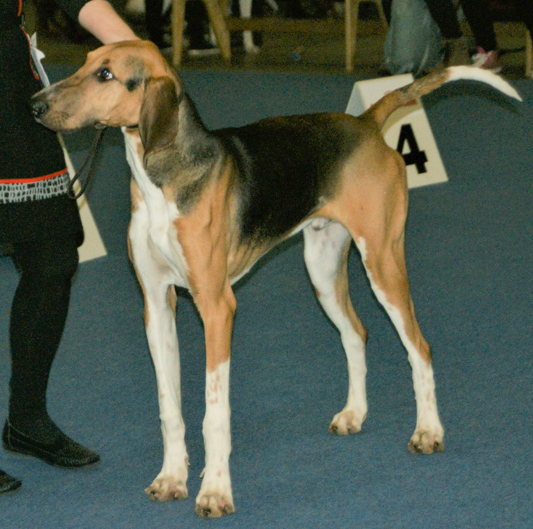 A Poitevin.